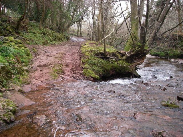 Ford across the Afon Cynrig This green lane (brown lane?)crosses the river by means of a rocky ford, displayed here from mid-stream. It lies just below Cantref churchyard and wood, both of which are worth visiting.